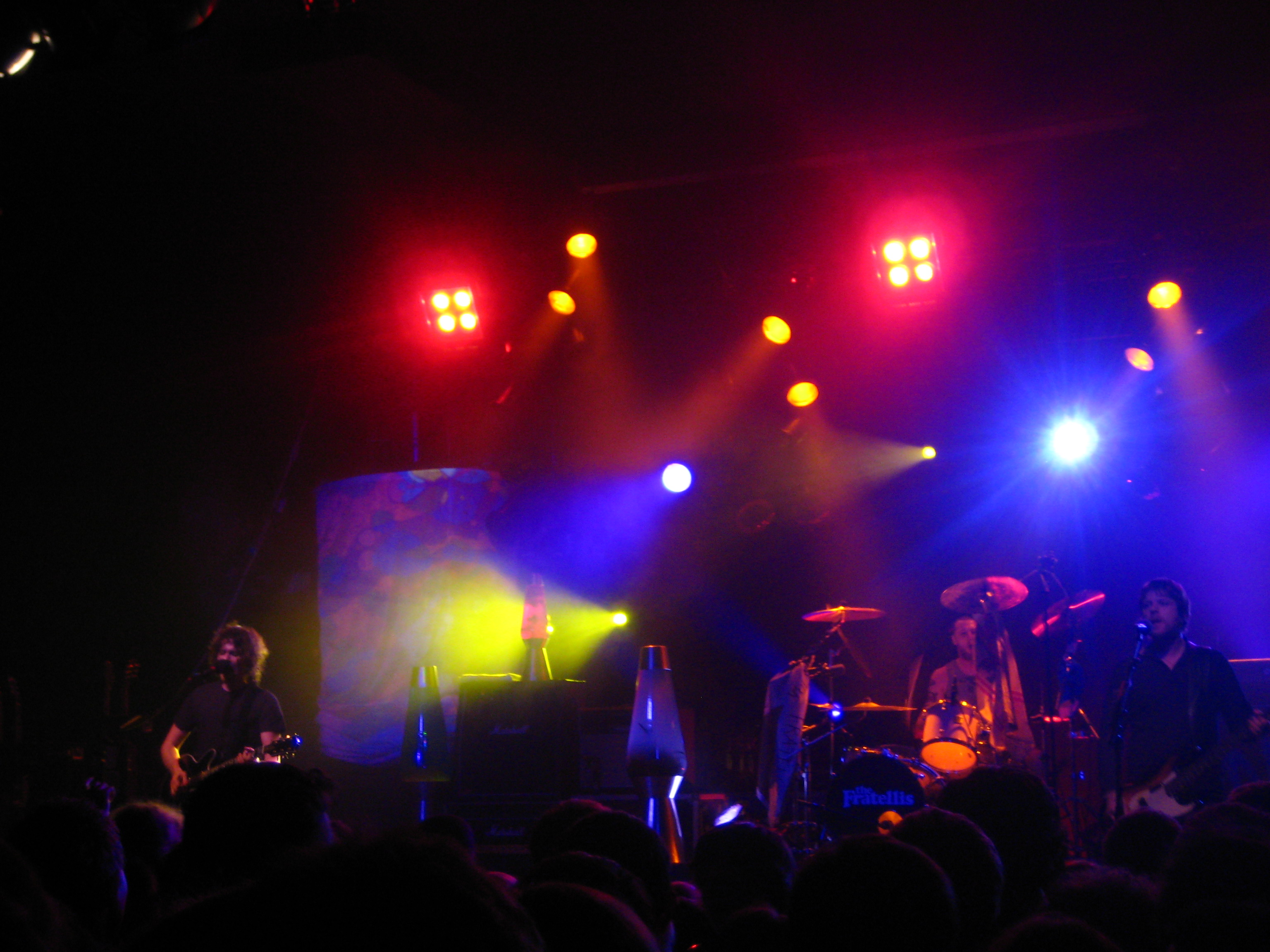 The Fratellis on stage at the Birmingham Academy